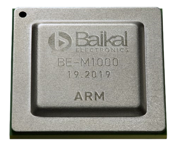 Microprocessor BE-M1000